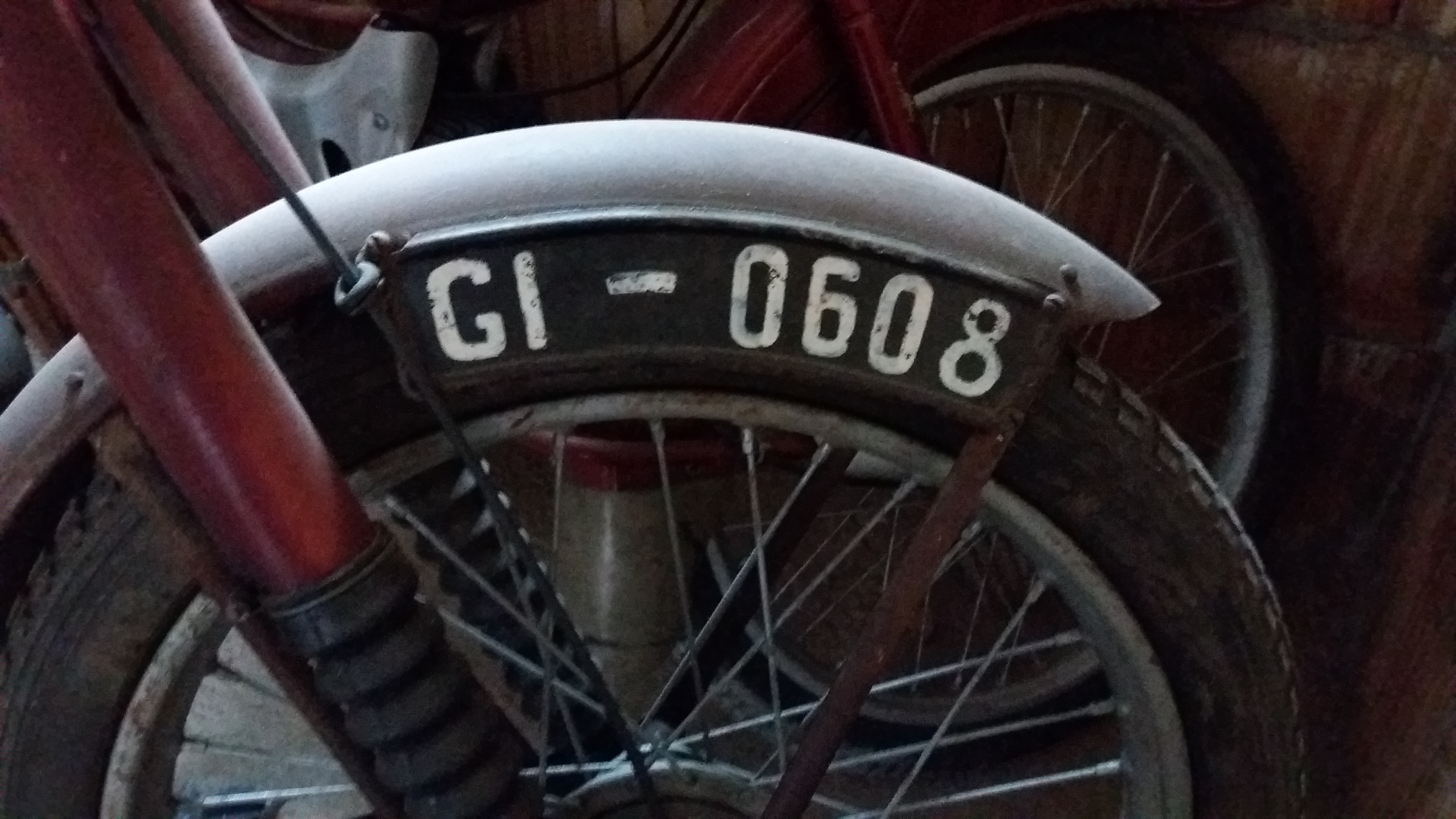 Polish number plate from 1956-76 period. WFM M-06 (Warszawska Fabryka Motocykli) motorcycle, 1958